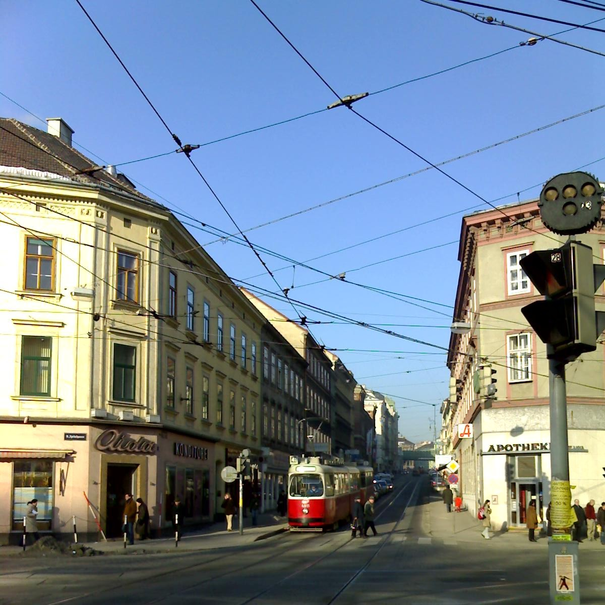 A view of Währinger Straße, located in the 9th district Alsergrund of Vienna, Austria.